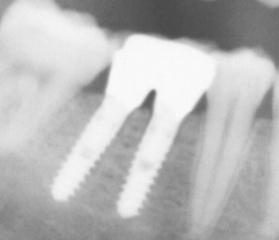 X-Ray picture of two cylindrical dental implants inserted into the jaw.